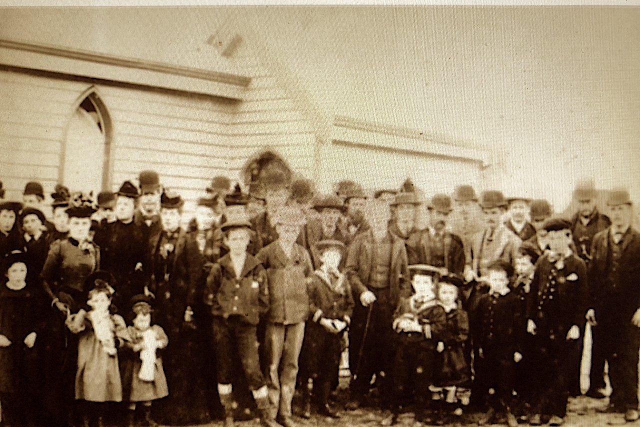 People gather for the dedication service of St. Barnabas Church , South Arm, 27 July, 1892.